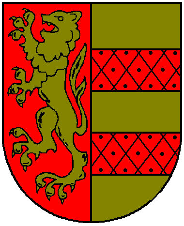 Coat of arms of the municipality of Butjadingen